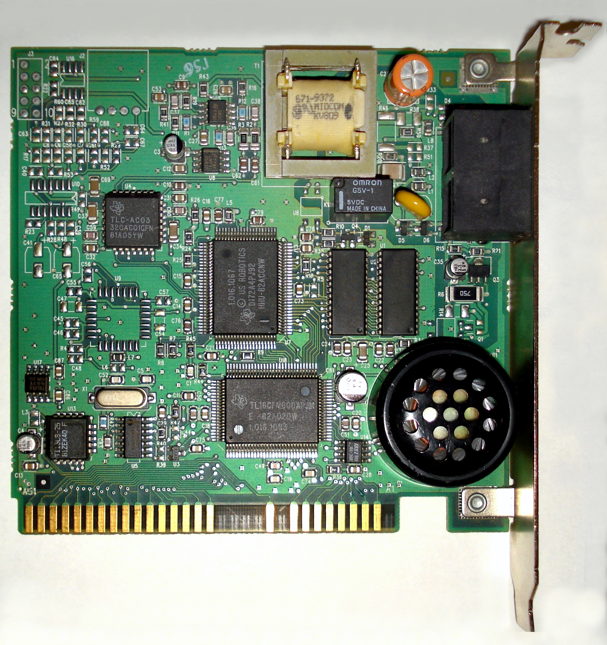 ISA US Robotics 56k Modem